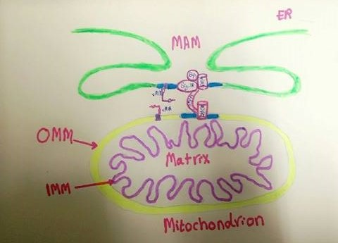 The Contact site between endoplasmic reticulum (ER) and mitochondria via MAM